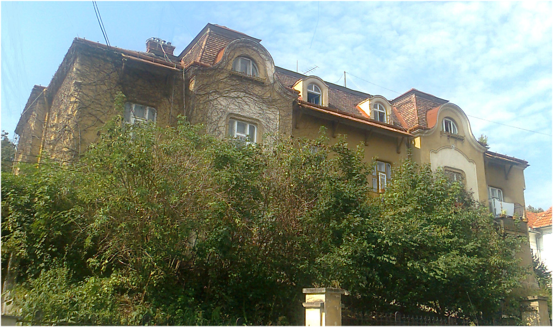 House of the Hungarian architect János Spáda (1877–1913) in Kolozsvár/Cluj-Napoca